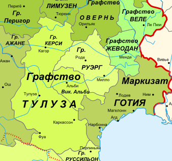 County of Toulouse in 1030